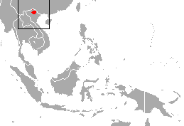 Tonkin Snub-nosed Langur (Rhinopithecus avunculus) range